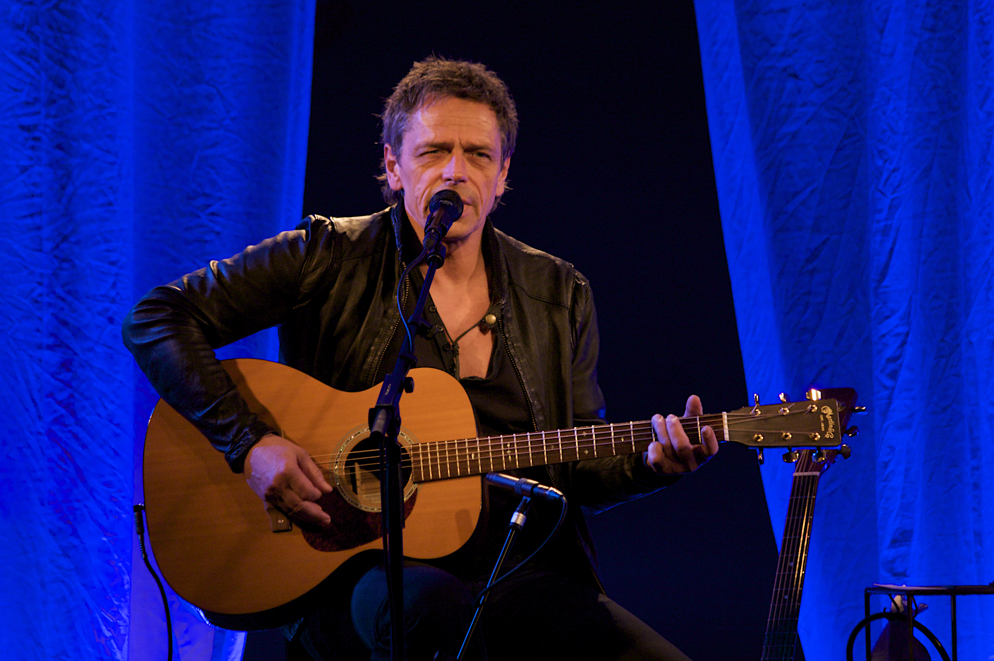 Danish singer/songwriter and actor, Michael Falch.